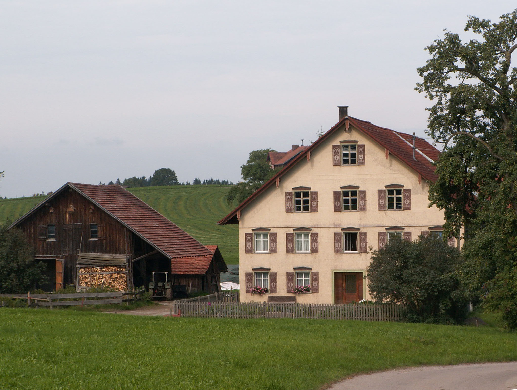 Edelitz, Hergatz